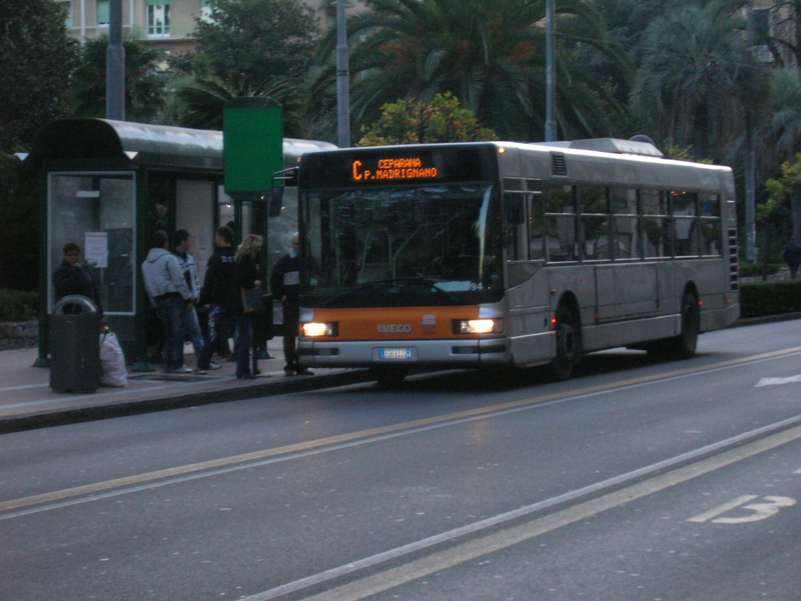 La Spezia - Autobus ATC, Iveco City Class.